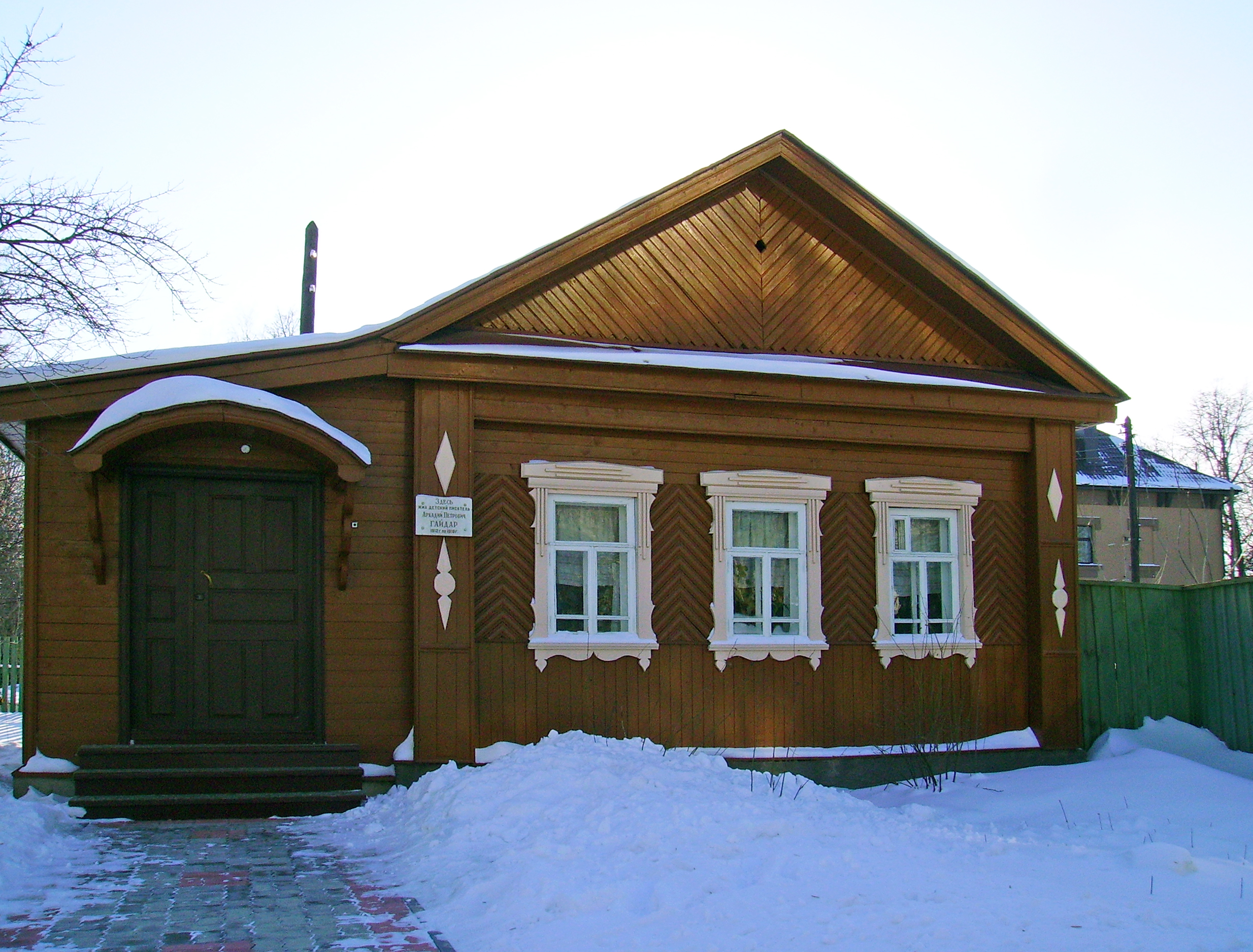 Arzamas. House The Museum of Arkady Gaidar, russian soviet writer